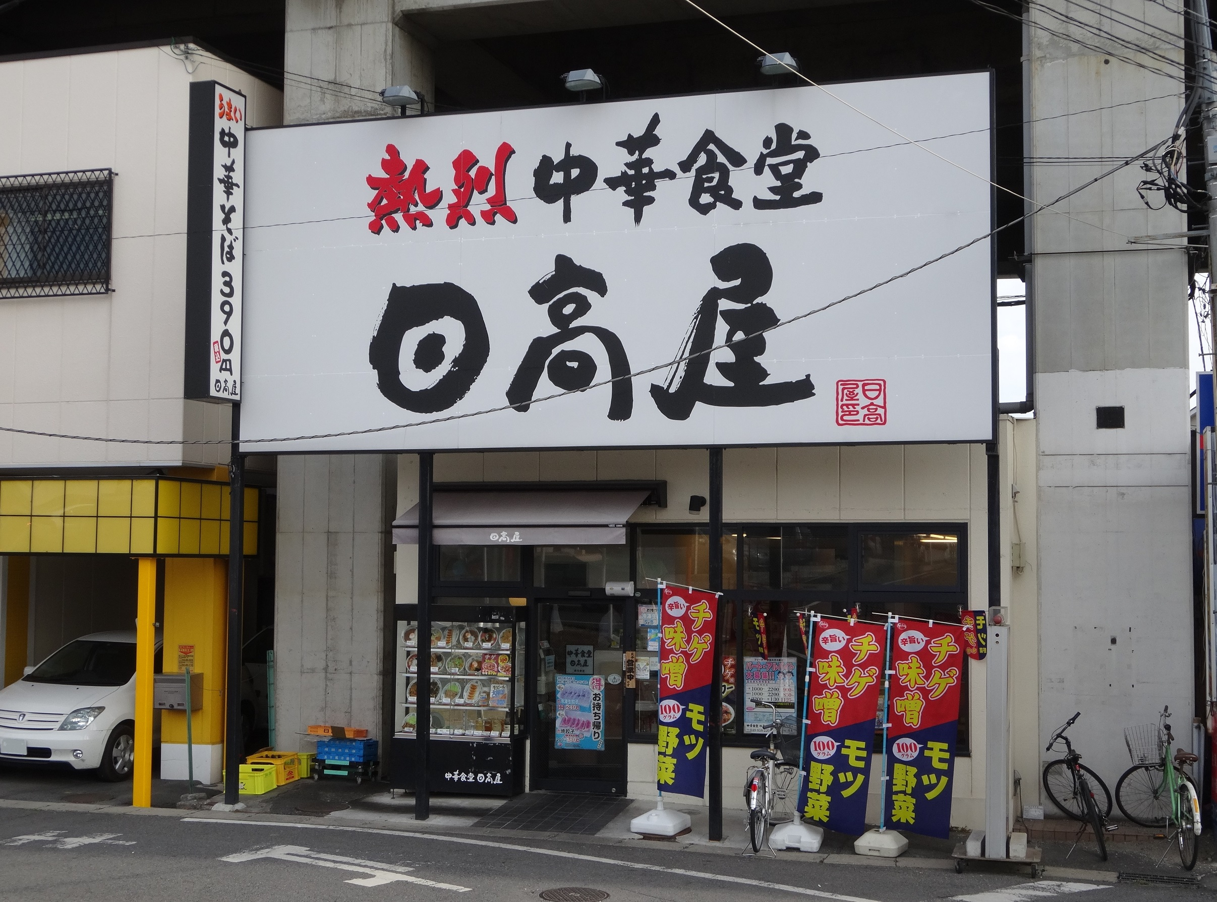 Hidakaya(Japanese restaurant) in Minamiyono,Chuo-ku,Saitama,Japan